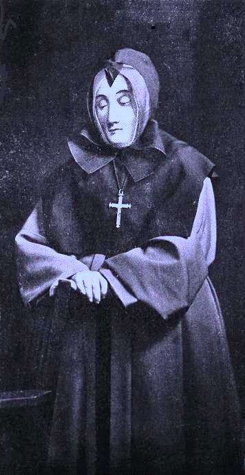 Print, Mère d'Youville, founder of the Grey Nuns, Montreal, QC, about 1910, Anonymous. Ink on paper mounted on card - Halftone - 13 x 7 cm